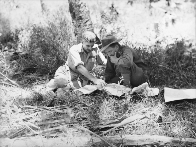 Kaiapit, New Guinea. 1943-09-25. VX9 Major General G.A. Vasey, CB, OBE, DSO., General Officer Commanding, 7th Australian Division (left) and NX148 Brigadier I.N. Dougherty, DSO., commander, 21st Australian Infantry Brigade (right), discussing battle plans in the shade of a coconut palm.